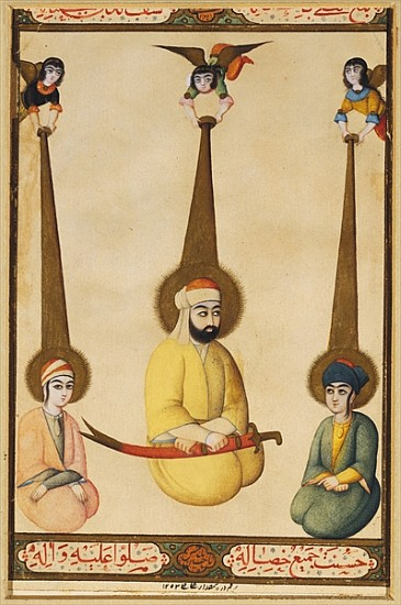 The first three Shiite Imams: Ali with his sons Hasan and Husayn, illustration from a Qajar manuscript, Iran, 1837-38 (gouache on paper)